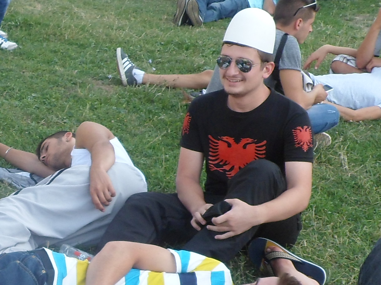 A group of young albanians resting in a field,one of them is wearing the Plis(Qeleshe)